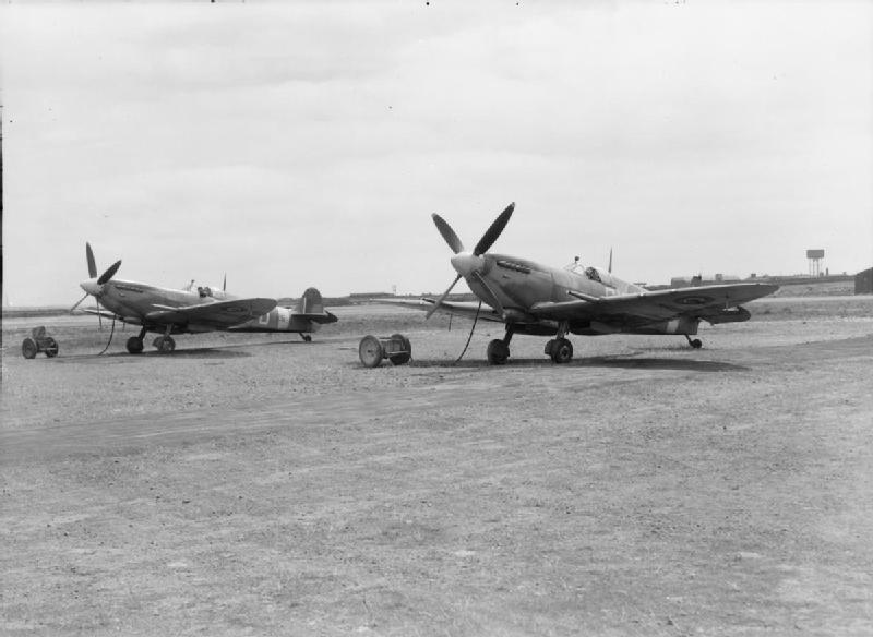 Royal Air Force- Air Defence of Great Britain (adgb), 1943-1944. Two Supermarine Spitfire Mark IXs of No. 165 Squadron RAF on standby, plugged into trolley-accumulators, at Predannack, Cornwall. During the Normandy invasion the Squadron flew 'Instep' fighter patrols over the western approaches to the English Channel.